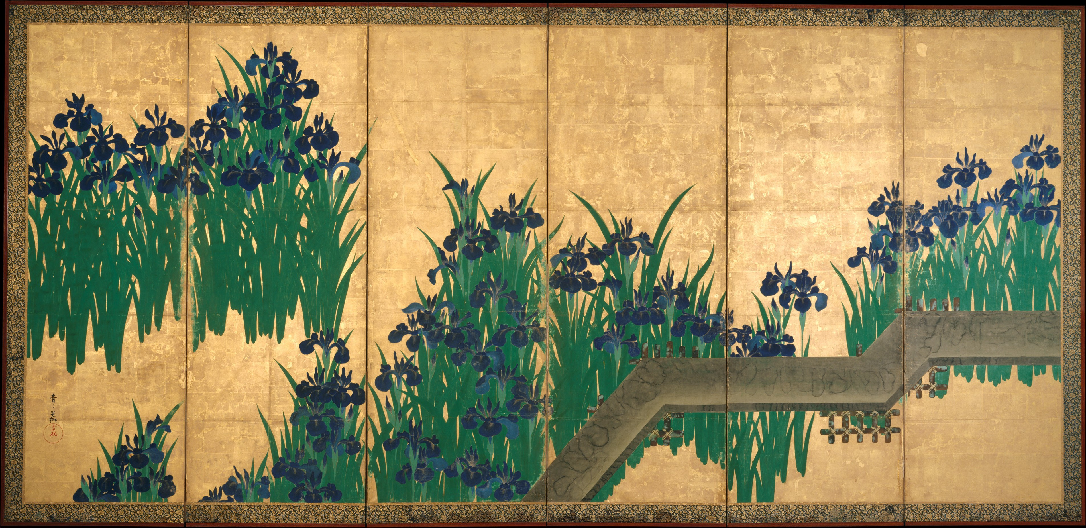 Japan; Folding screen; Screens